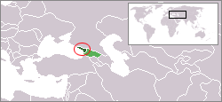 Location map for the Abkhazia, based on Image:LocationGeorgia.png.